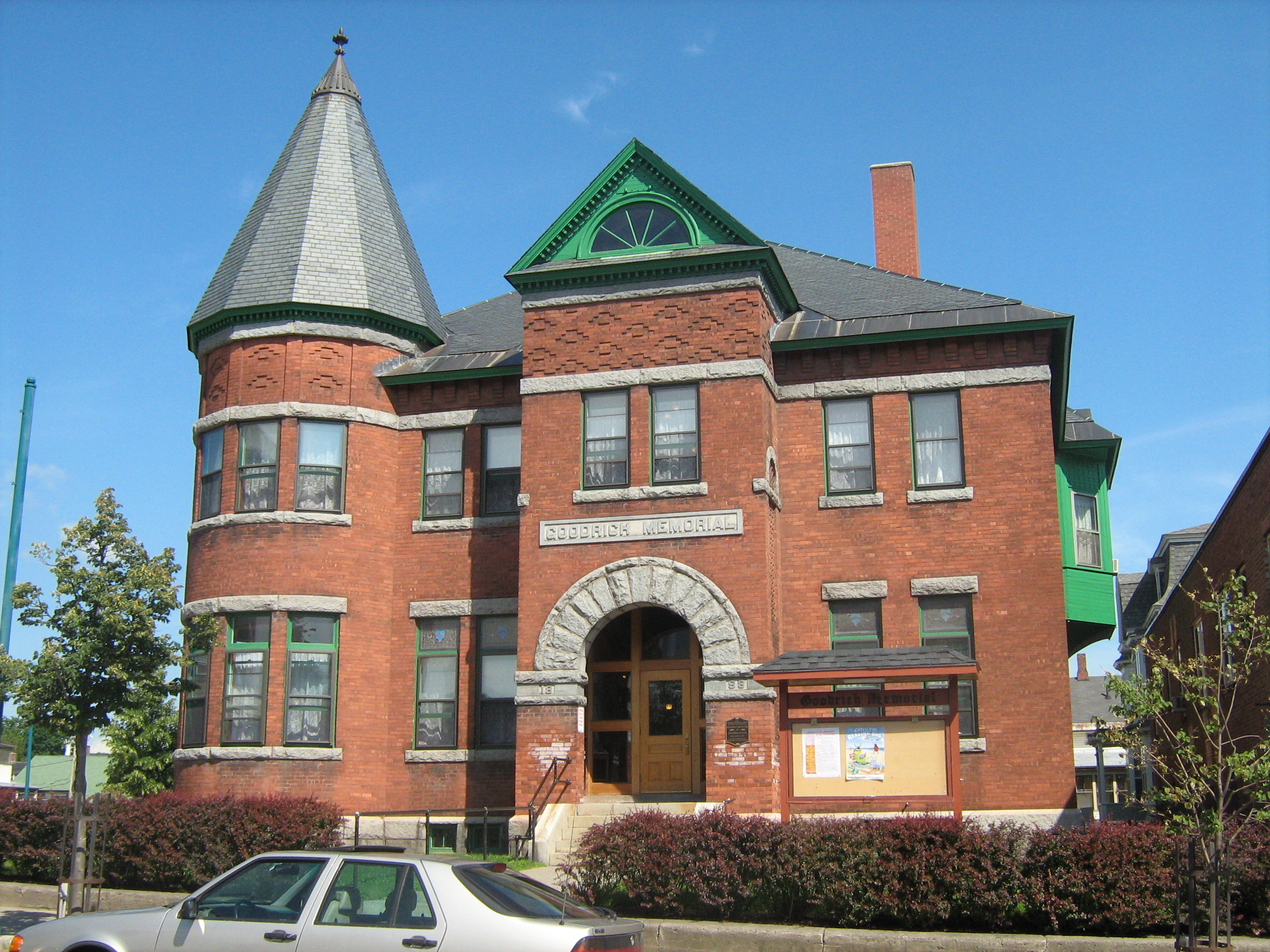 Named for C.G.Goodrich (from school teacher and farmer to merchant, he served as tax collector, constable, superintendent of schools and justice of the peace), who donated the land for the library and bequeathed a generous fund to operate it. Construction commenced in 1898; both Mr. Goodrich and his wife died before the building was dedicated in 1899. Not just a library, but a museum as well: numerous photos, paintings and memorabilia of the area's past, with accompanying explanations. Listed on the National Register of Historic Places.